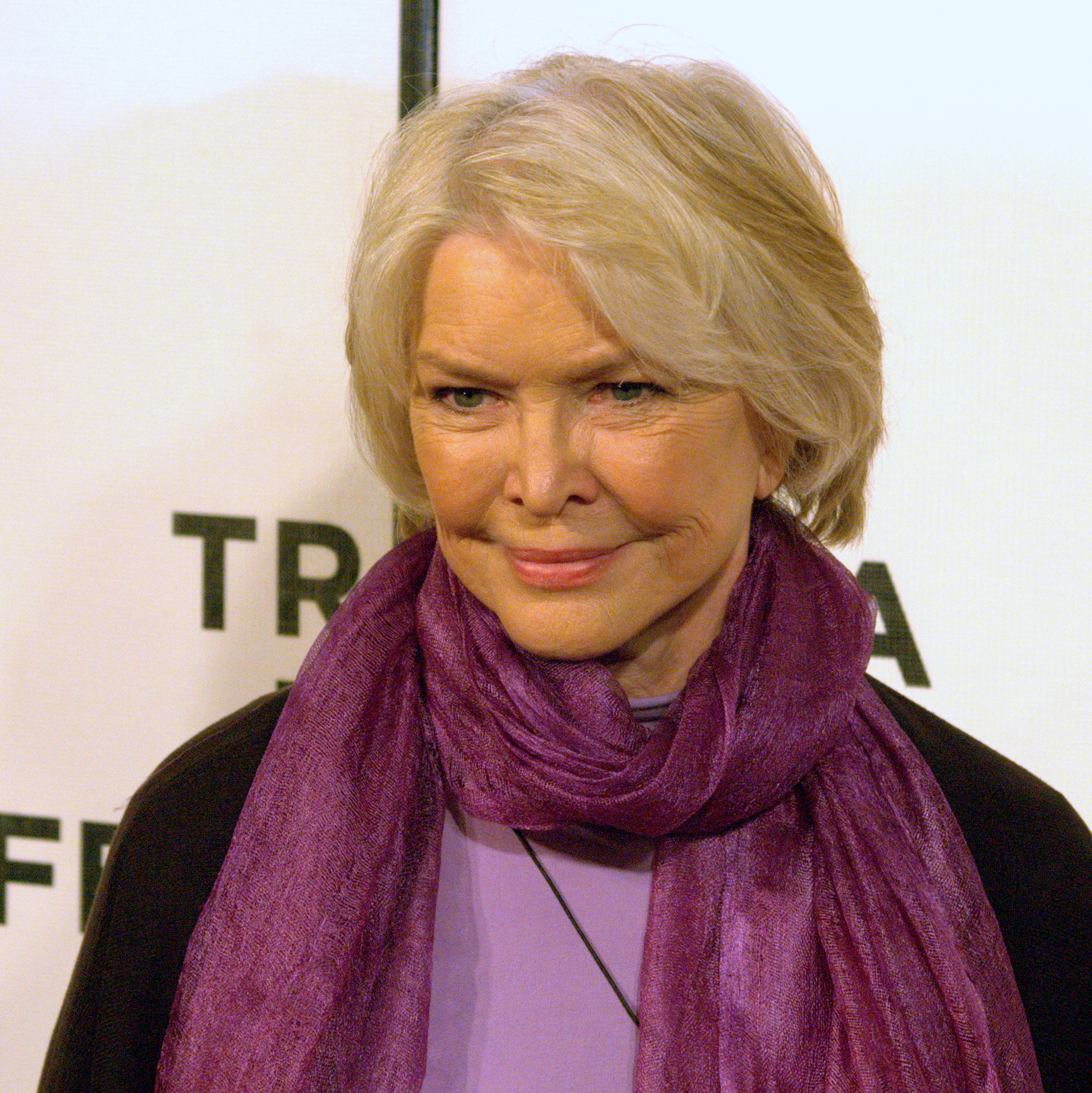 Ellen Burstyn at the 2009 Tribeca Film Festival premiere of Poliwood.